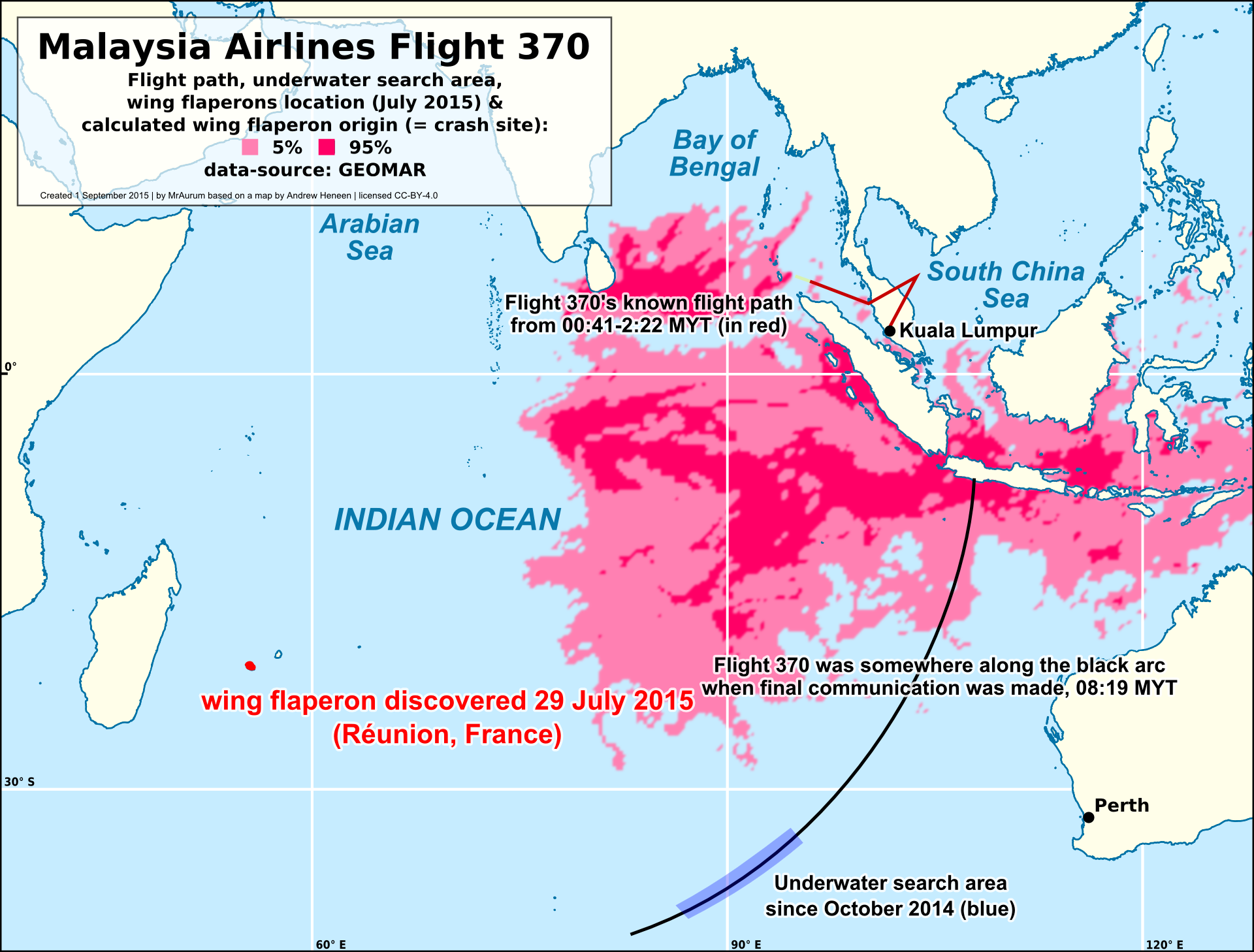 map of MH370 with GEOMAR calculation of wing flaperon origin based on File:Reunion_debris_compared_to_MH370_flight_path_and_underwater_search_area.svg